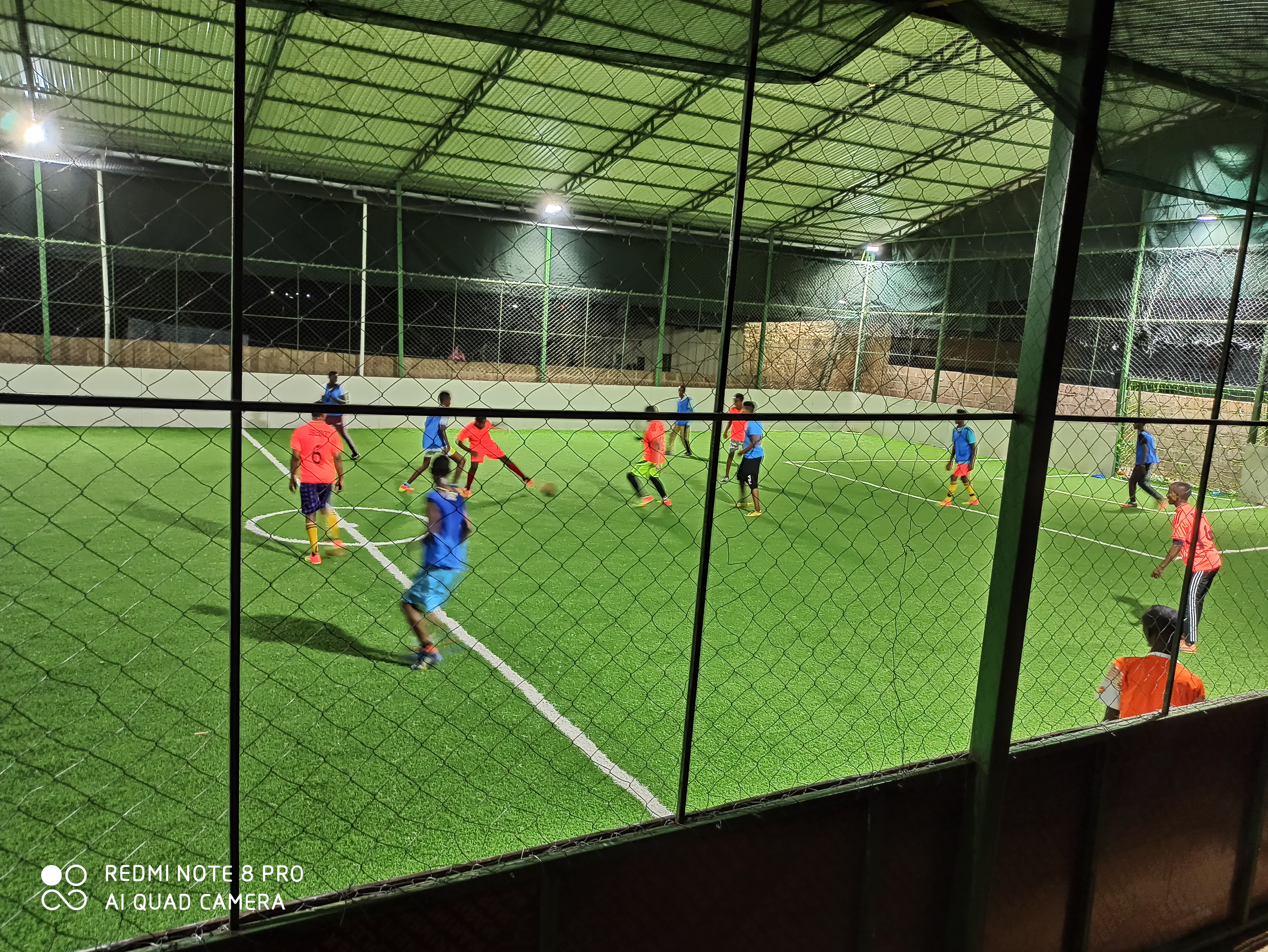 This is an image with the theme "Africa on the Move or Transport" from: Kenya